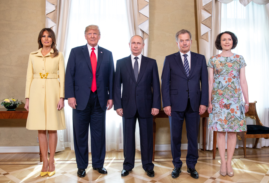 President Donald J. Trump and First Lady Melania Trump with President Vladimir Putin of the Russian Federation and President Sauli Niinistö and Jenni Haukio of Finland / July 16, 2018, Helsinki, Finland (Official White House Photo by Shealah Craighead)